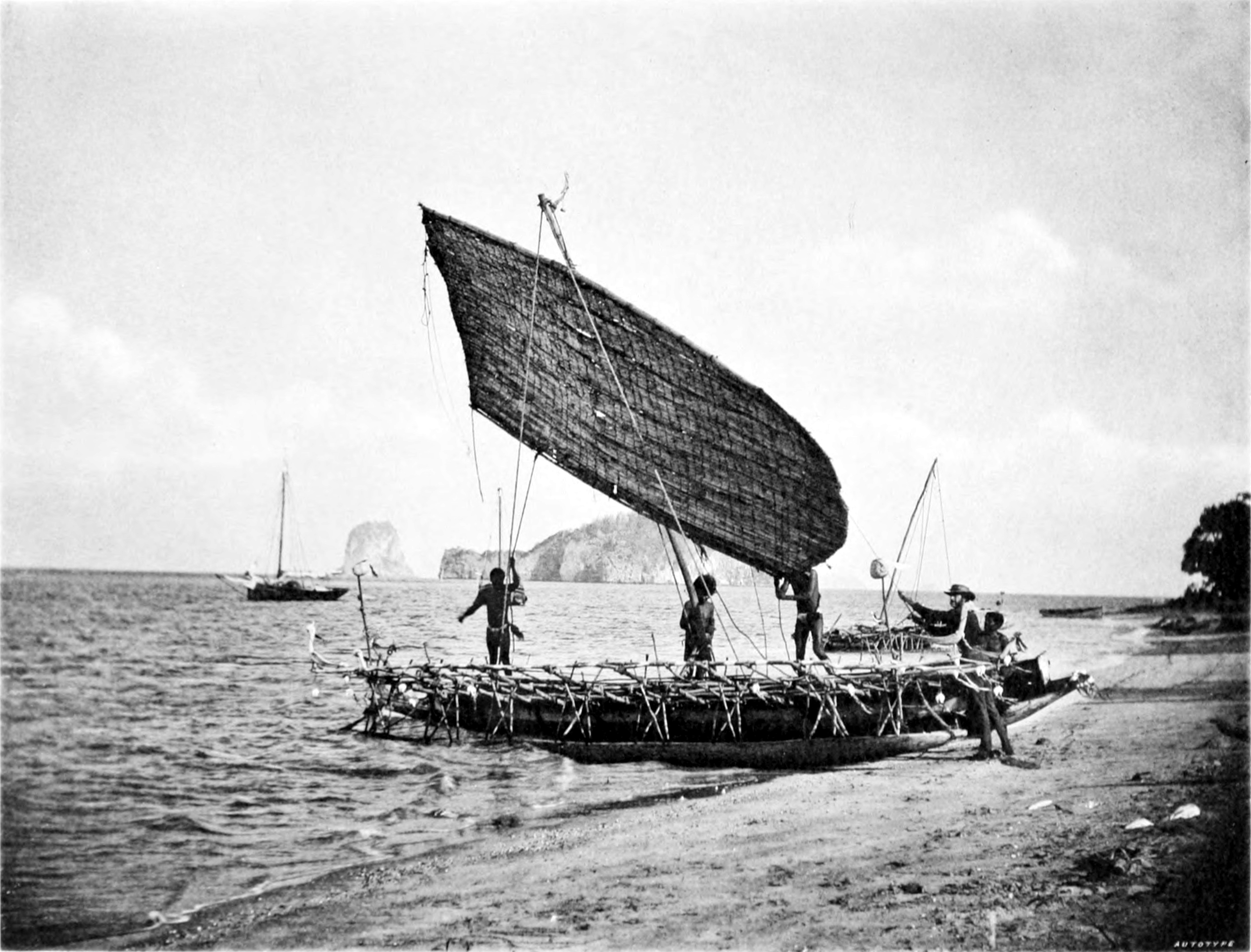 On the beach, Teste Island, Kissack's trading canoe, British New Guinea.